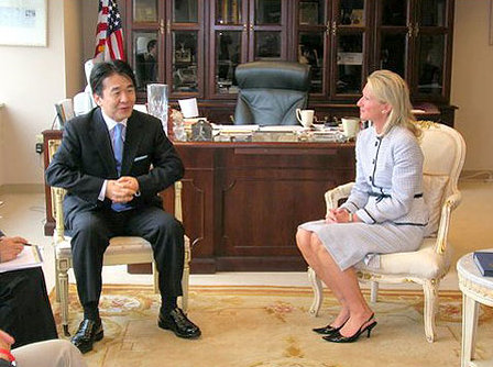 Minister for Internal Affairs and Communications Heizō Takenaka met with Federal Communications Commissioner Deborah Tate at the Federal Communications Commission in Washington, D.C. on August 4, 2006.